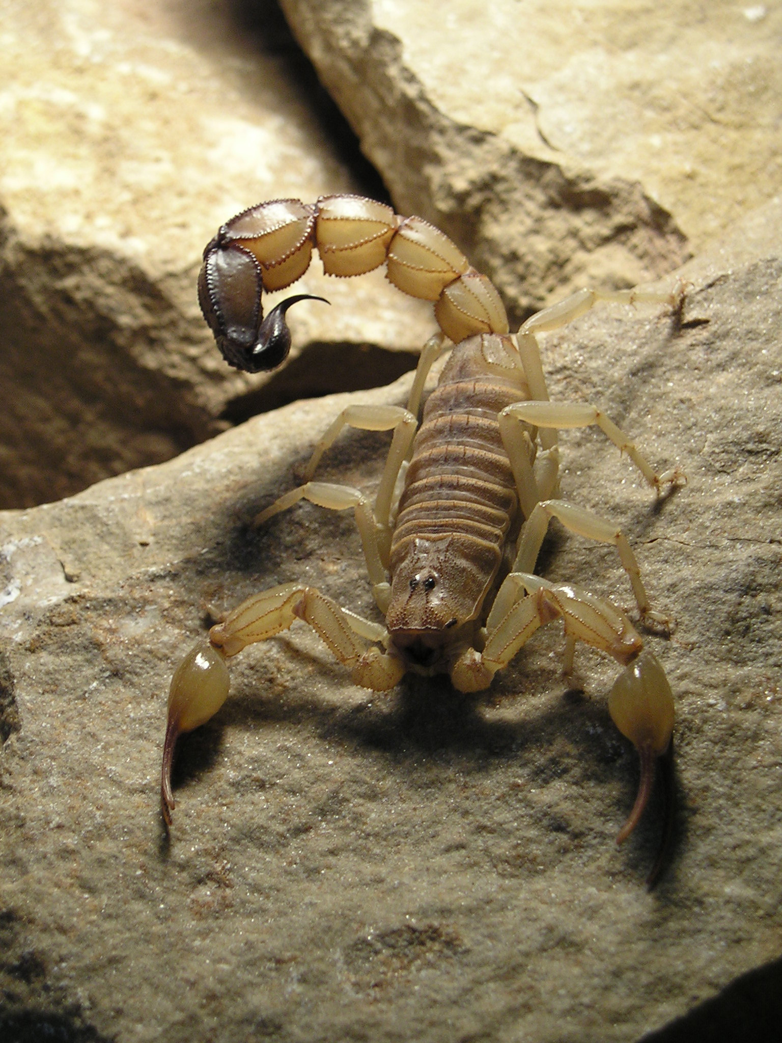 Androctonus australis adult male